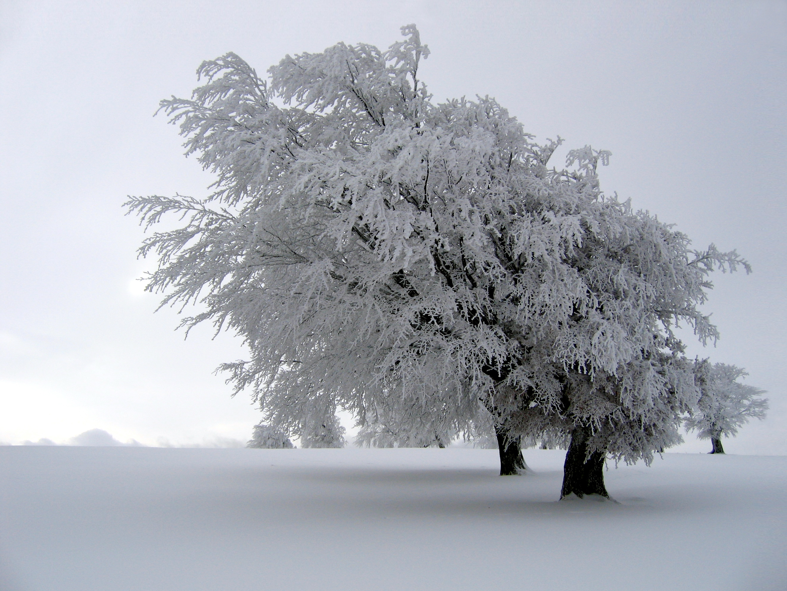 Windbeeches on the Schauinsland in Germany (Black Forest)